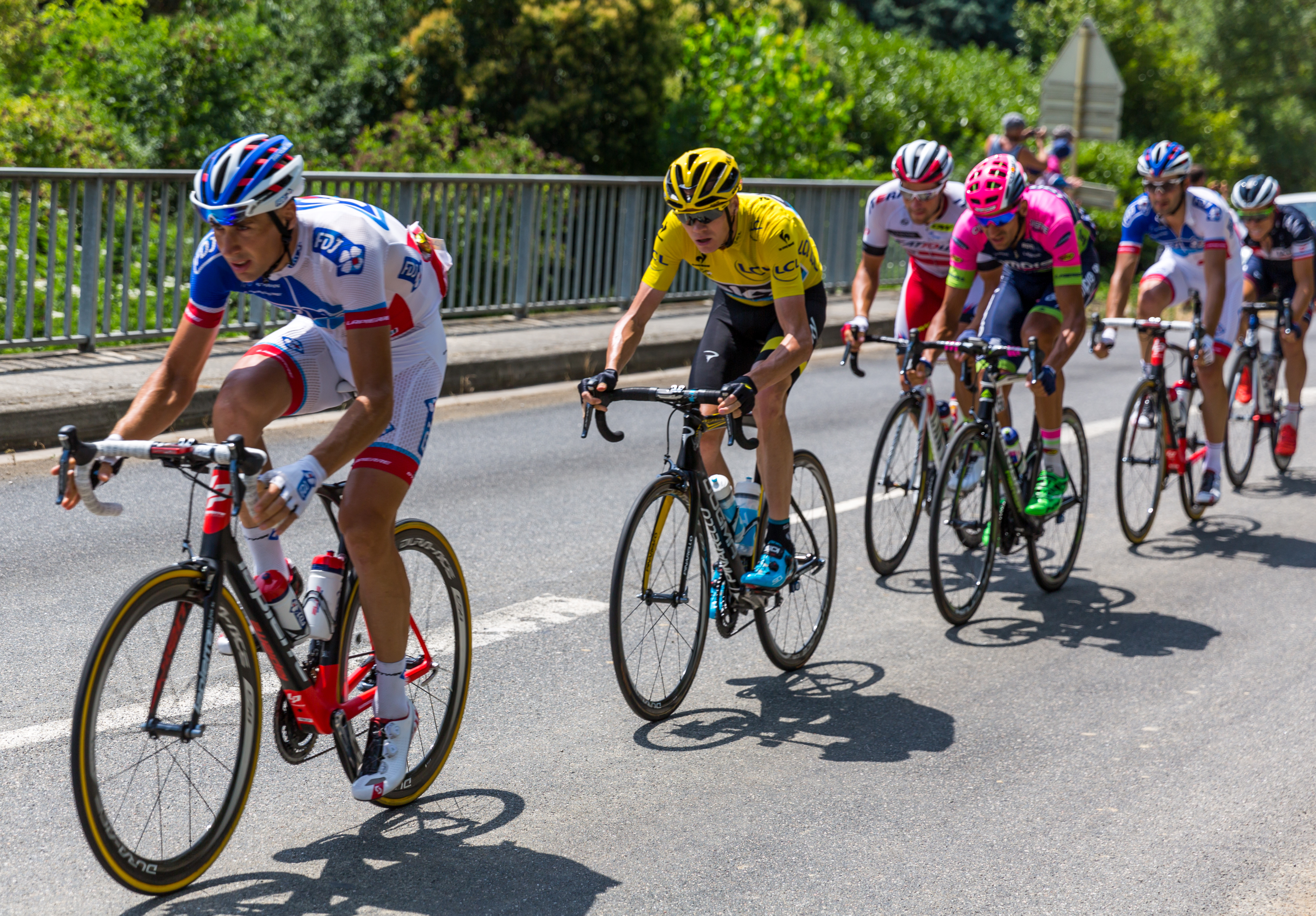 Cyclist of FDJ followed by Yellow Jersey Chris Froome(SKY) during stage 13.